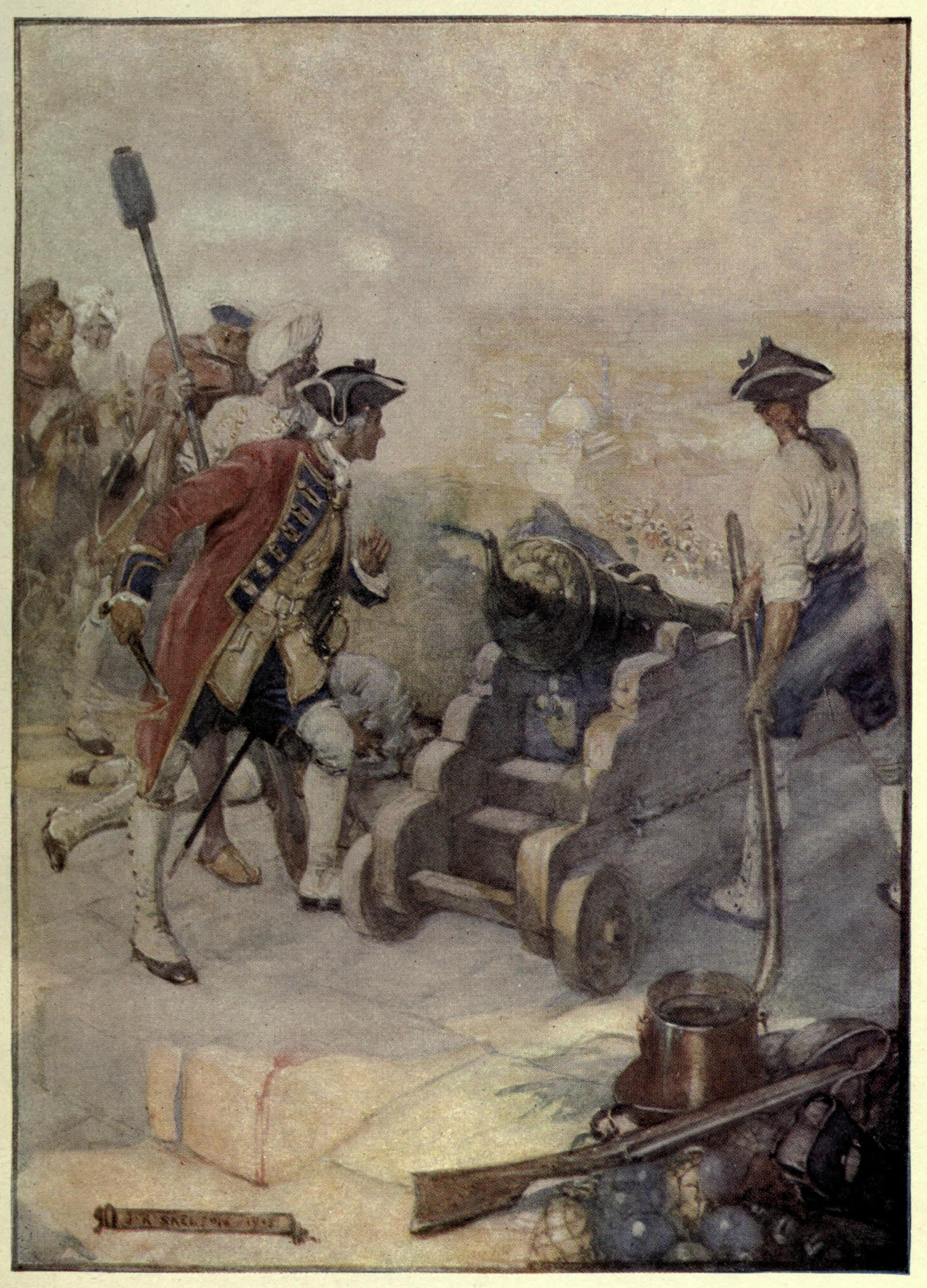 India's story : told to boys and girls (1912) Author: Marshall, H. E. (Henrietta Elizabeth), b. 1876 Publisher: London : T.C. & E.C. Jack Possible copyright status: NOT_IN_COPYRIGHT Language: English Digitizing sponsor: MSN Book contributor: University of California Libraries Collection: cdl; americana Full catalog record: MARCXML [Open Library icon]This book has an editable web page on Open Library.